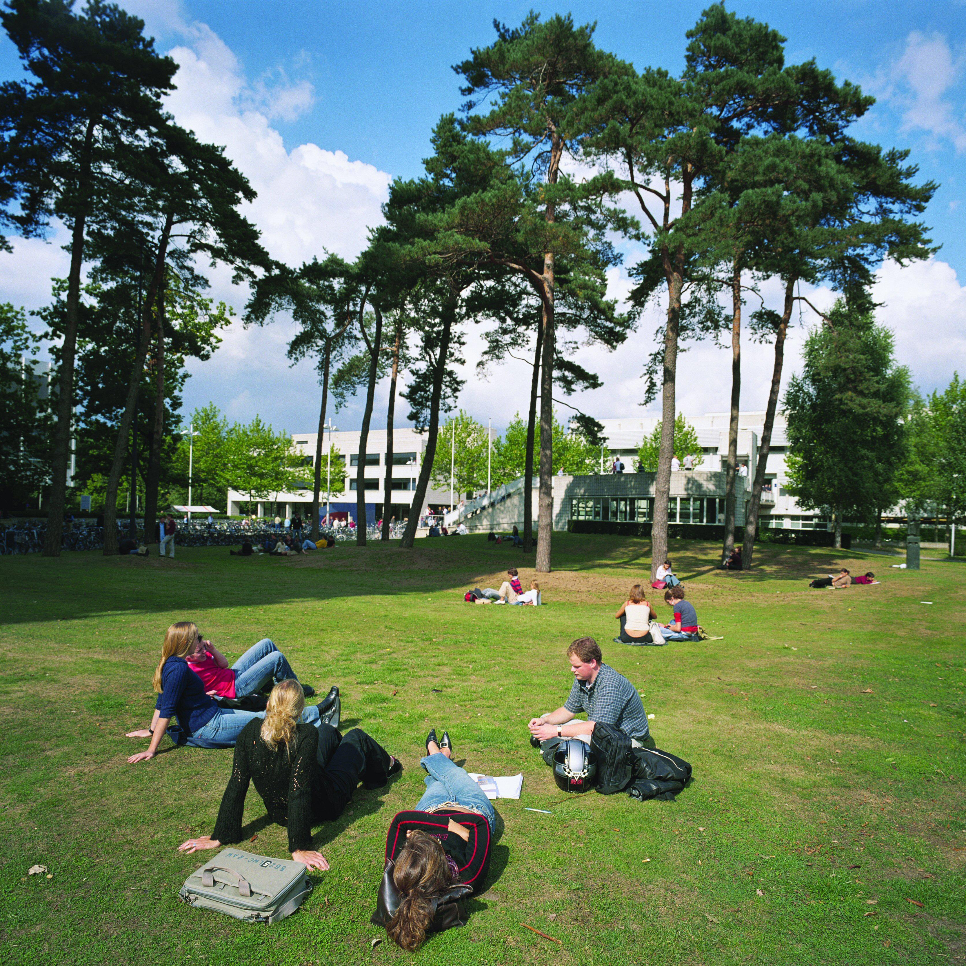 firyg[pehb n]